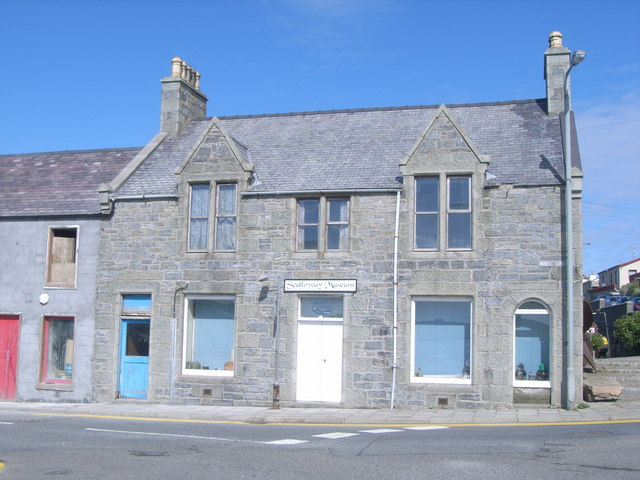 Scalloway Museum, Scalloway